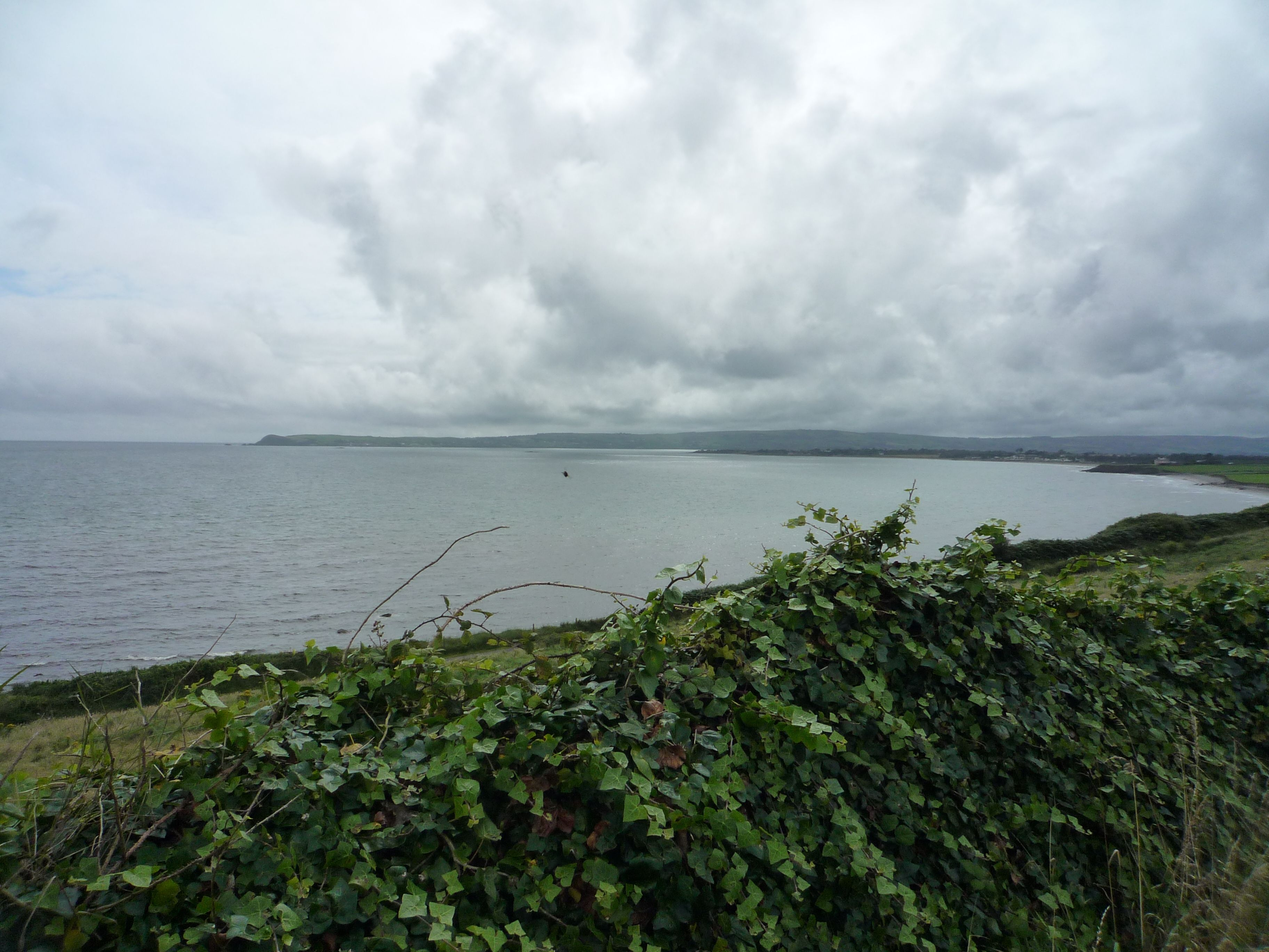 20120812 26 Ireland - Co. Waterford - Ballyvoile